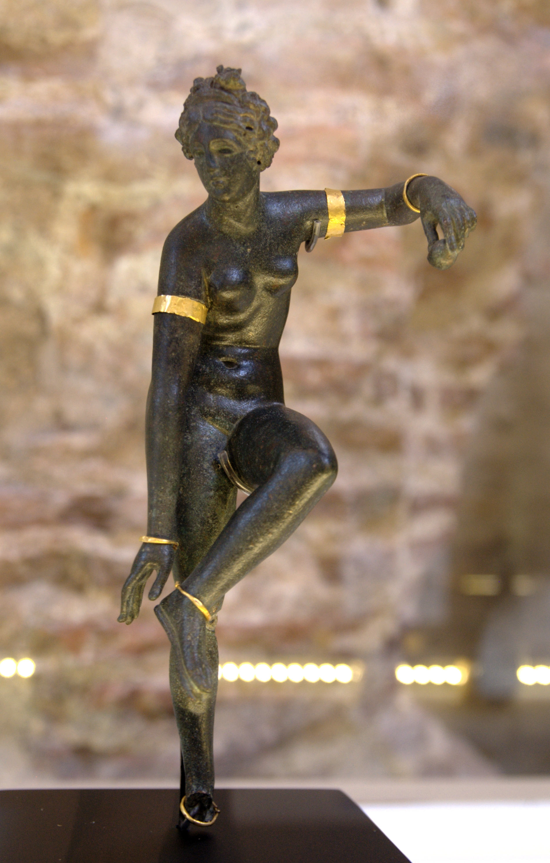 Aphrodite removing her sandal. Bronze with golden jewellery. 1st century (?), Syria (?).